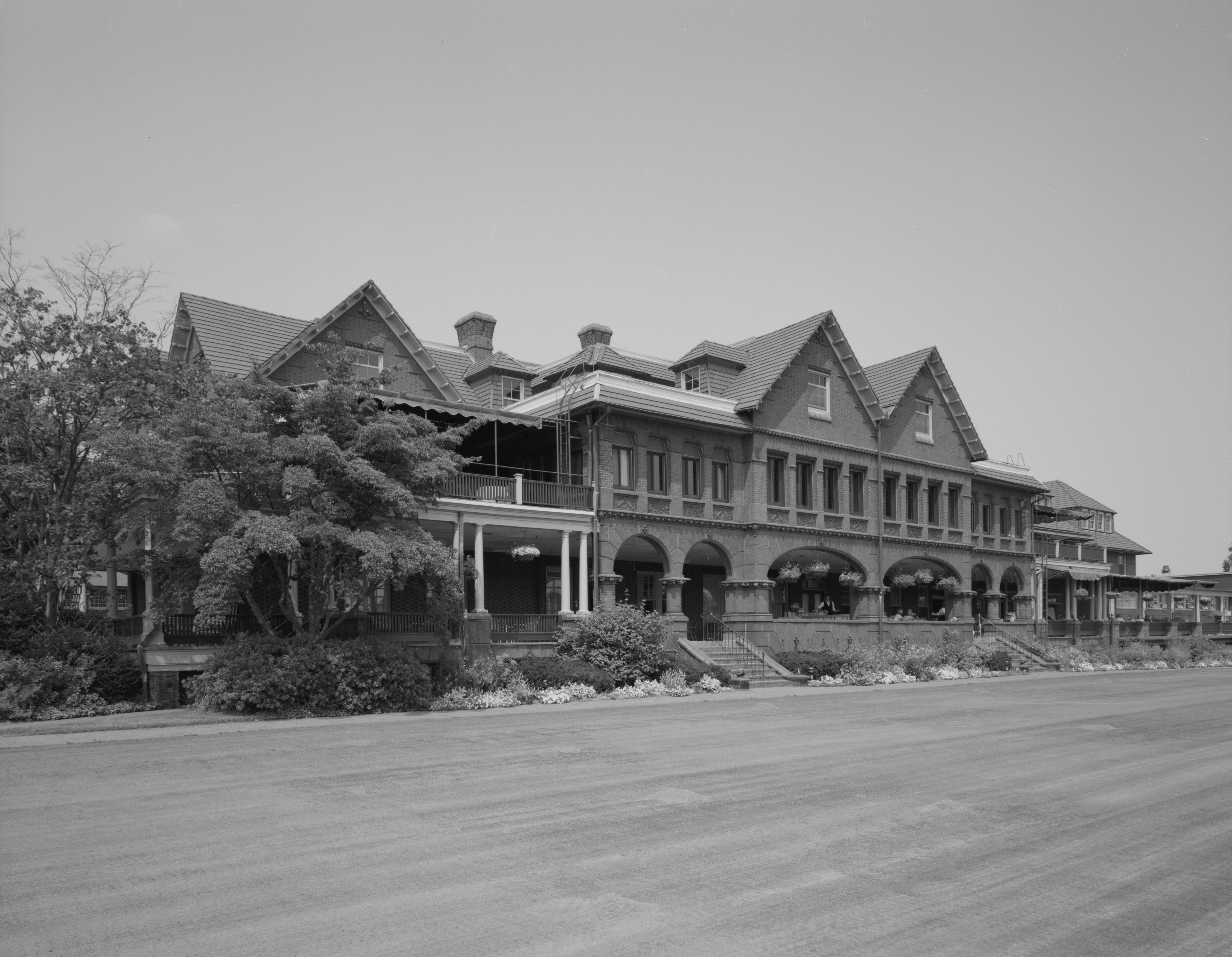 Merion Cricket Club, Montgomery Avenue & Grays Lane, Haverford, Montgomery County, PA